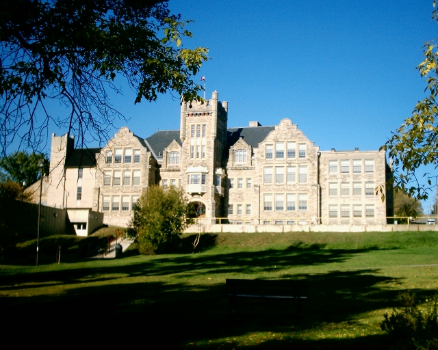 I, (Derek Silver), took this photograph on 1 October 2006. It is of Port Arthur Collegiate Institute in Thunder Bay, Ontario. I hereby release it into public domain for the masses to enjoy. :) Vidioman 11:15, 11 June 2007 (UTC)